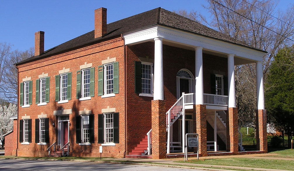 The old Banks County courthouse located in Homer The park downtown is to the photographer's back. The new courthouse is to the left and is behind the old courthouse.